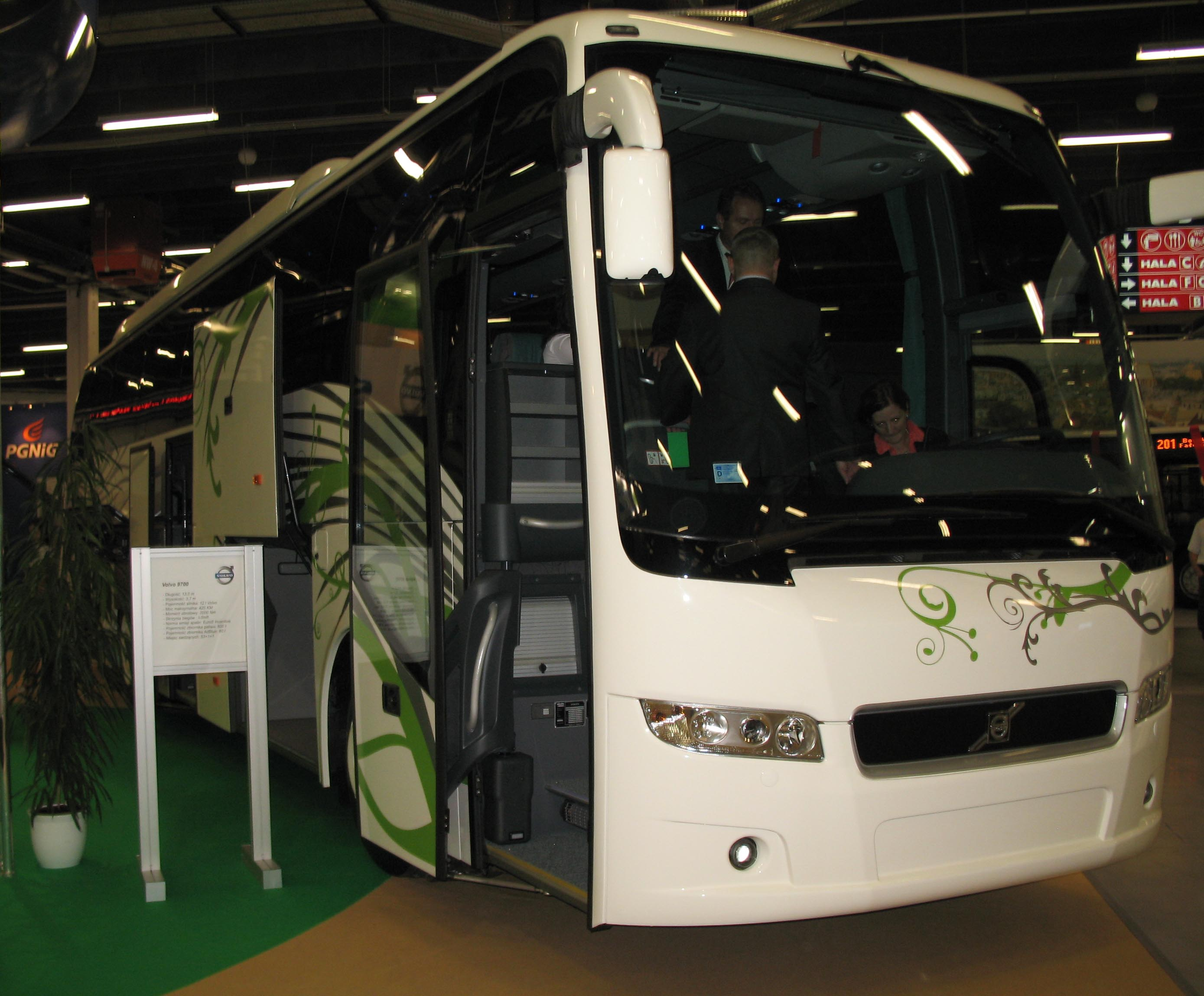 Volvo 9700 6x2 (13 m) coach (reg. ZK 70877) in Kielce, Poland. Built 2009, Partner Kołobrzeg operator. Transexpo 2009.